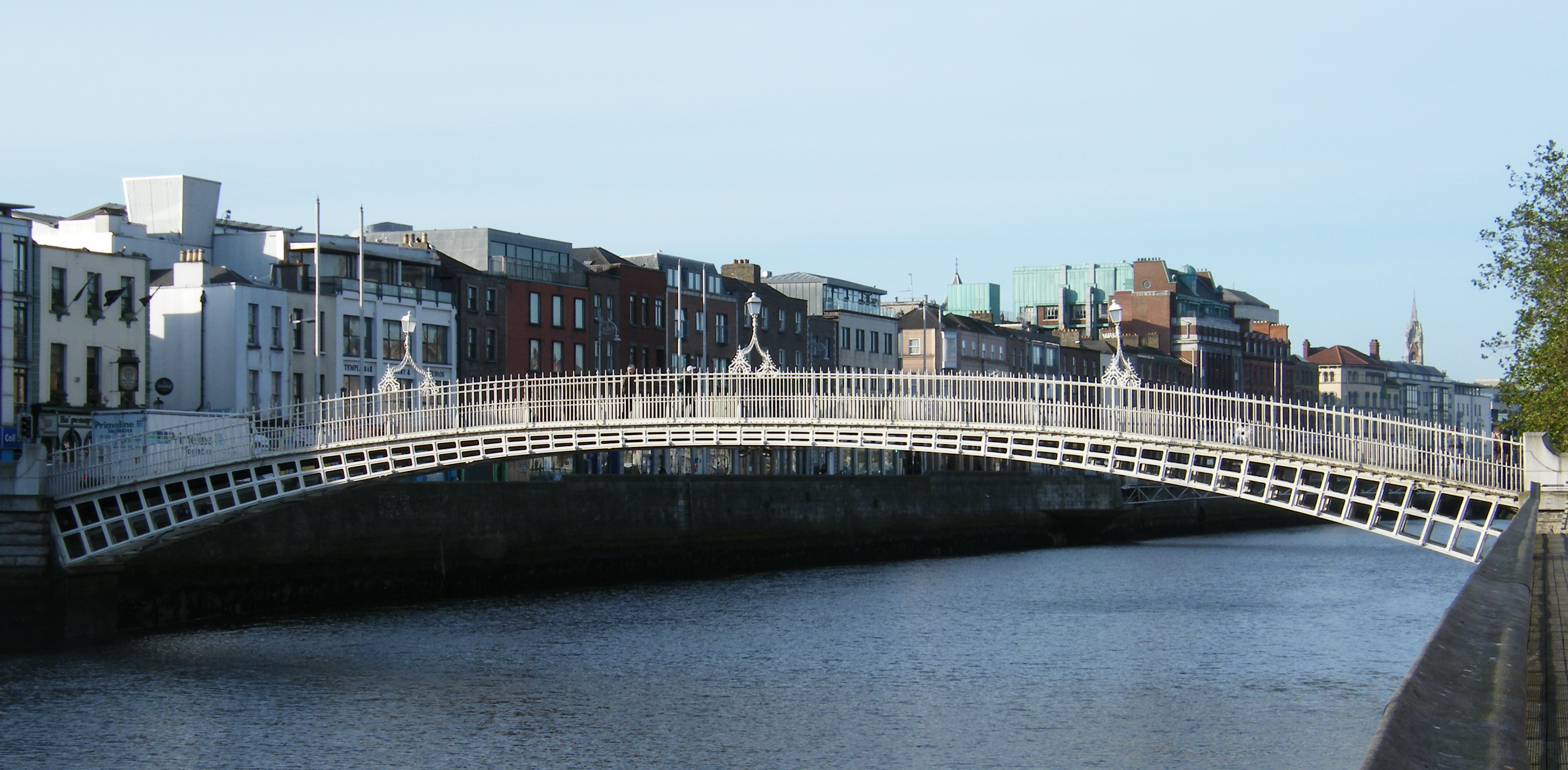 Ha'penny Bridge over River Liffey